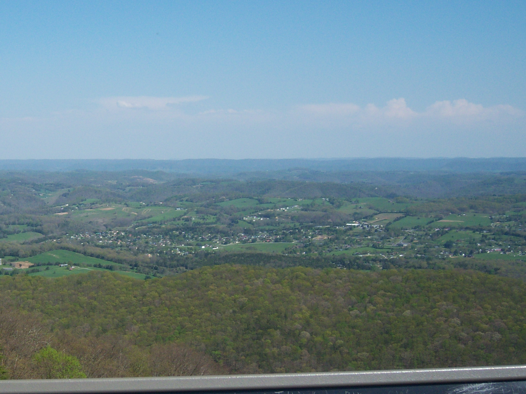 Harrogate, Tennessee as viewed from Pinnacle Overlook in Cumberland Gap National Historical Park.